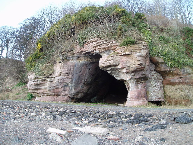 The Wemyss Caves, Dovecot Cave. These caves are renowned as they contain a unique heritage of ancient carvings some dating from as far back as the Neolithic period ( about 5000 years ago ). There are several caves some in better condition than others but even today archaeologists are still learning about the carvings on display at these famous caves. To learn more about the caves please follow the following weblink.